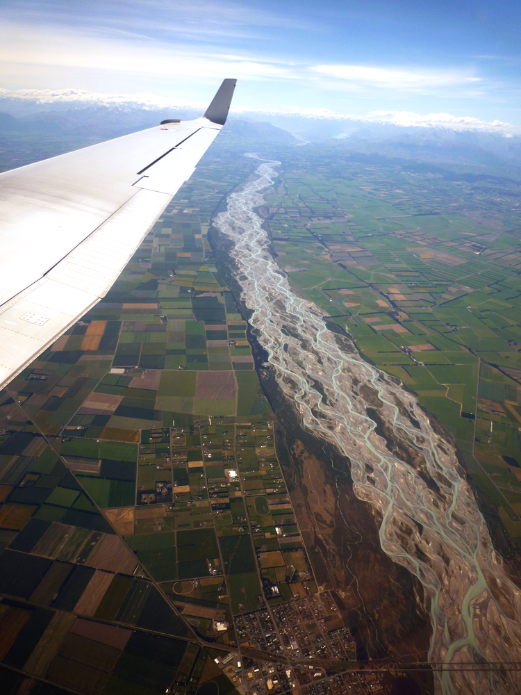 Aerial view of the Rakaia, a braided river crossing the Canterbury Plains, South Island, New Zealand.